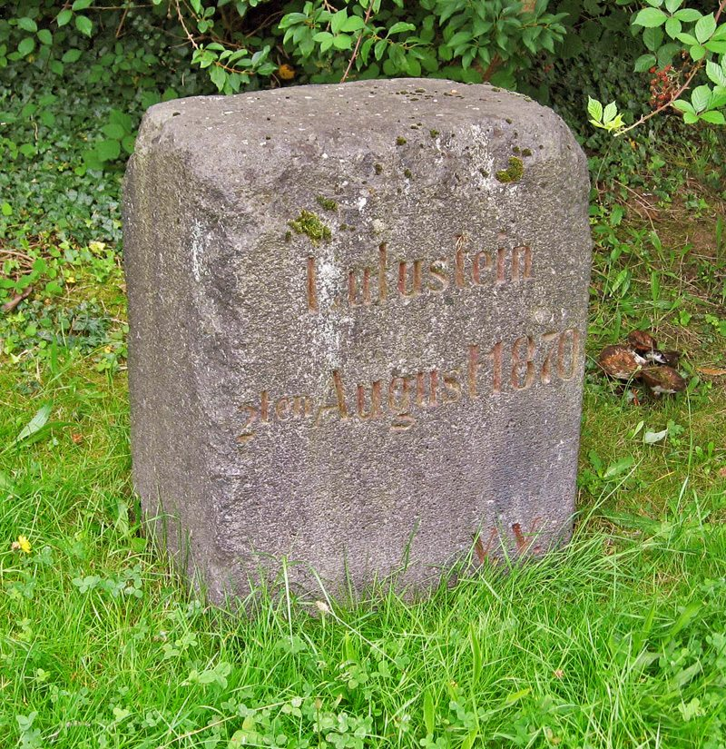 Lulustein in Saarbruecken, Germany July 2011